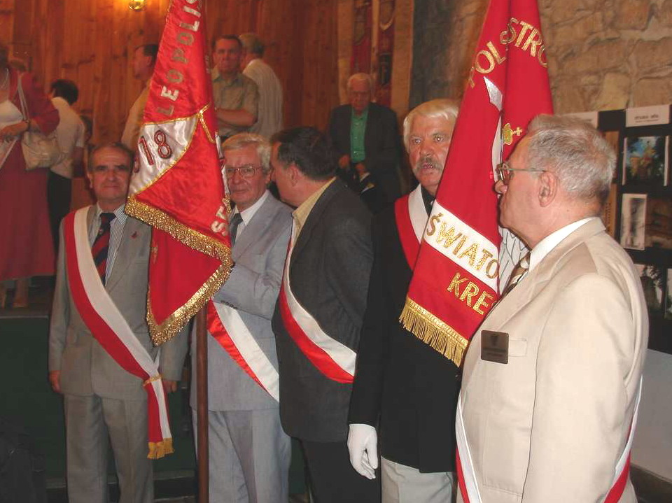 Association of the Polish Borderland Settlers Retinue flags.